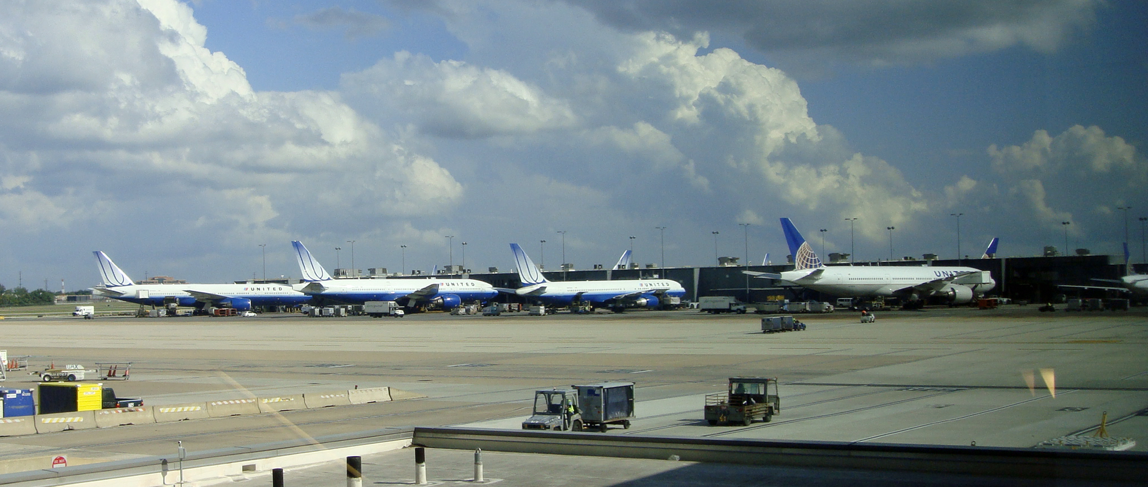 Several United Airlines aircraft at Washington-Dulles International Airport, Virginia